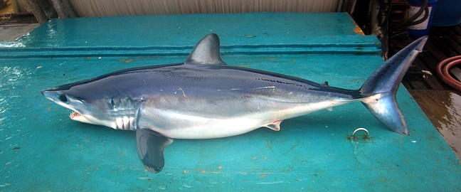 Shortfin mako shark (Isurus oxyrinchus)